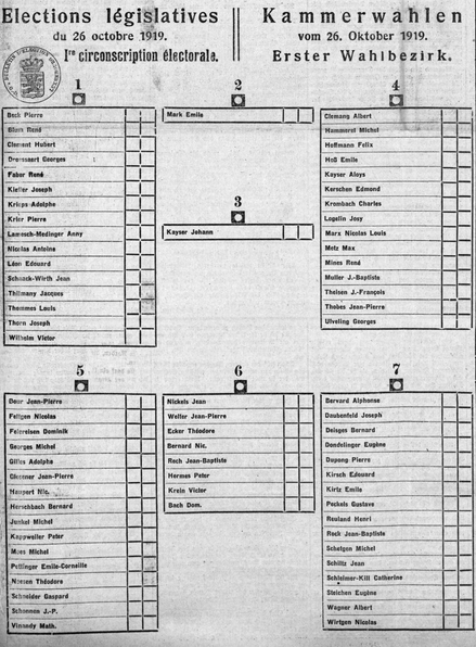 Ballot papers for the elections of 26 October 1919 in Luxembourg, 1st electoral district (Southern Luxembourg). Reproduction in the Tageblatt on 25 October 1919.